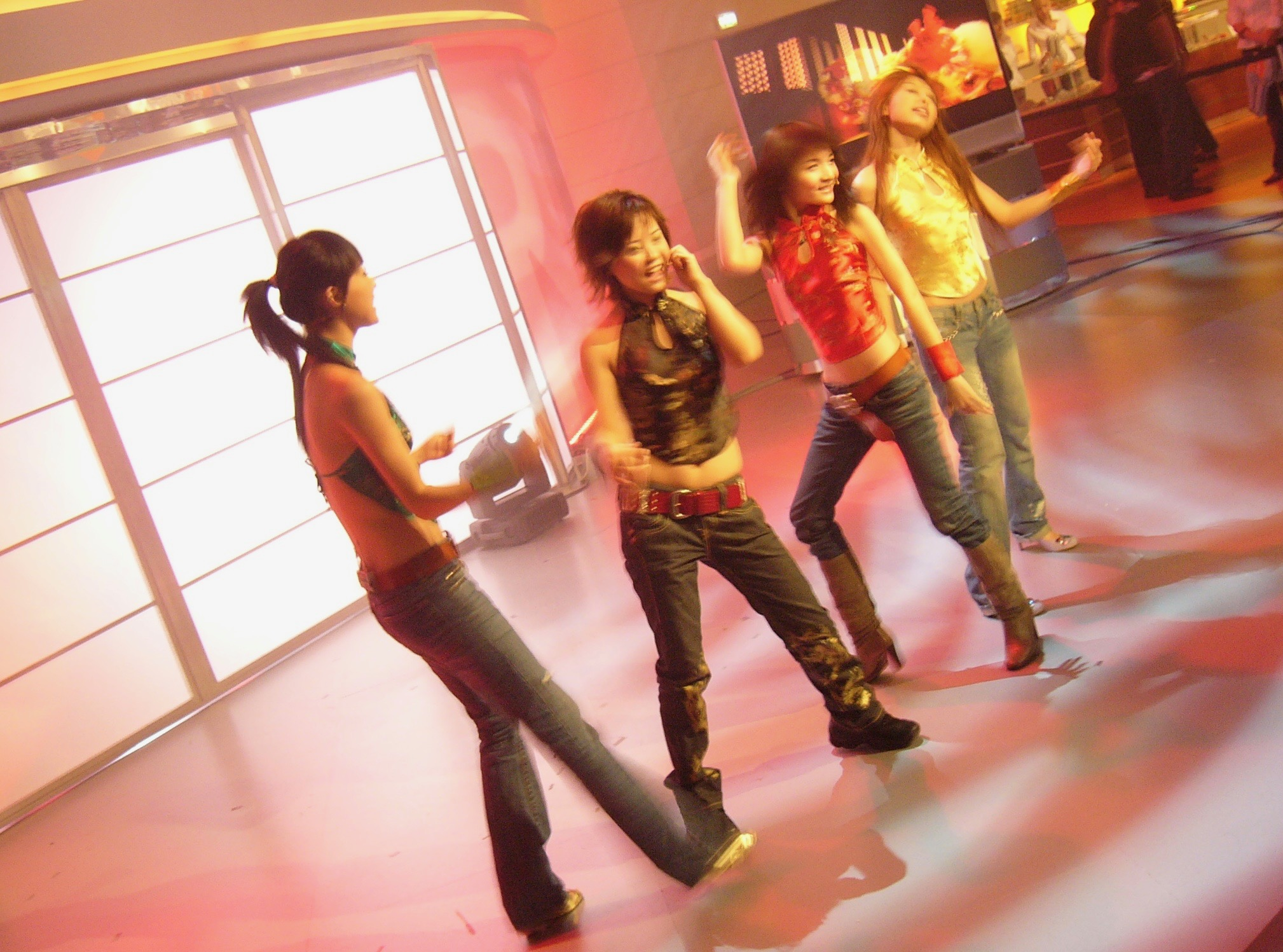 Chinese Band 'Jade' at "Internationale Funkausstellung" (IFA, in Berlin, Germany, Nov. 2006 (Photographer: Mark Benecke / )